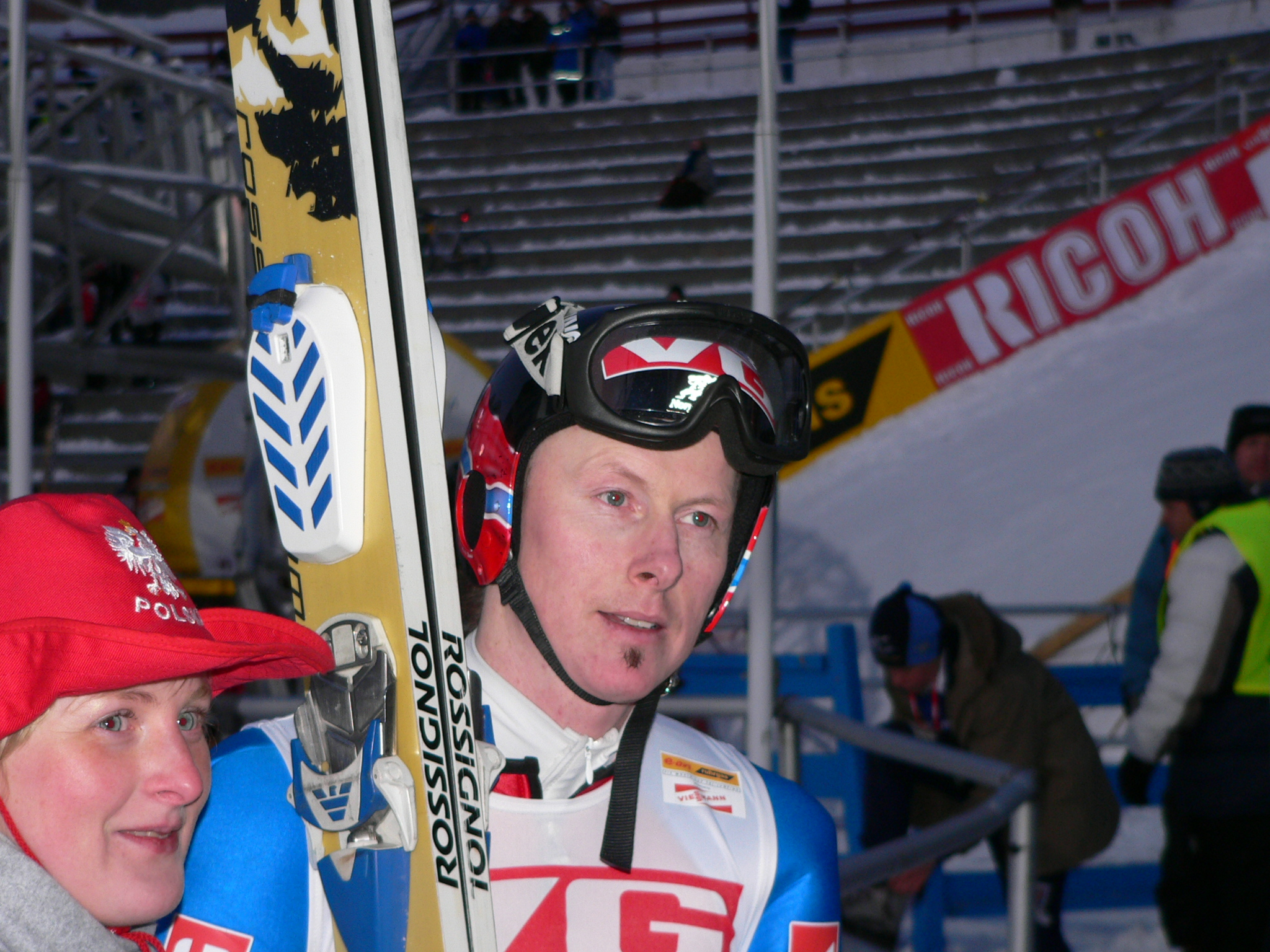 From the 2005 World Cup ski jumping event in Holmenkollen.